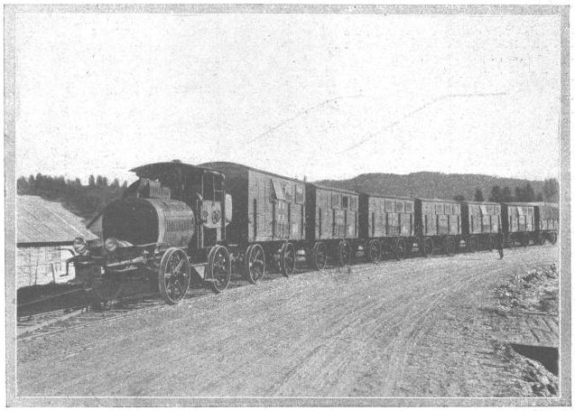 benzin-elekric railway at Tihuta pass